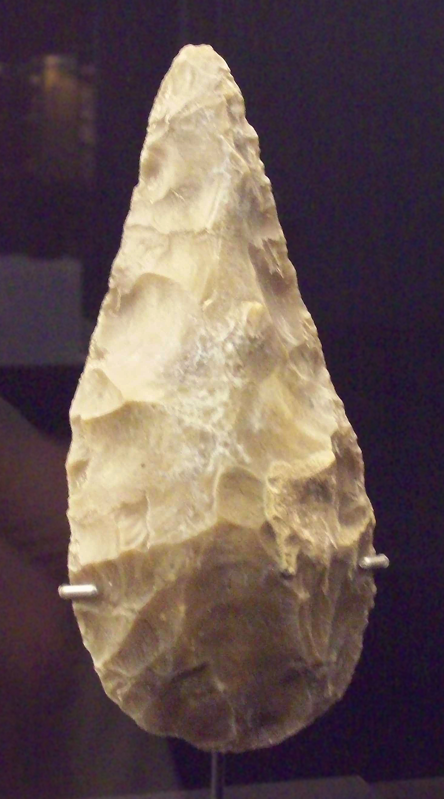 An Acheulean flint biface of the spear point type.